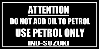 Ind Suzuki Petrol Tank Label